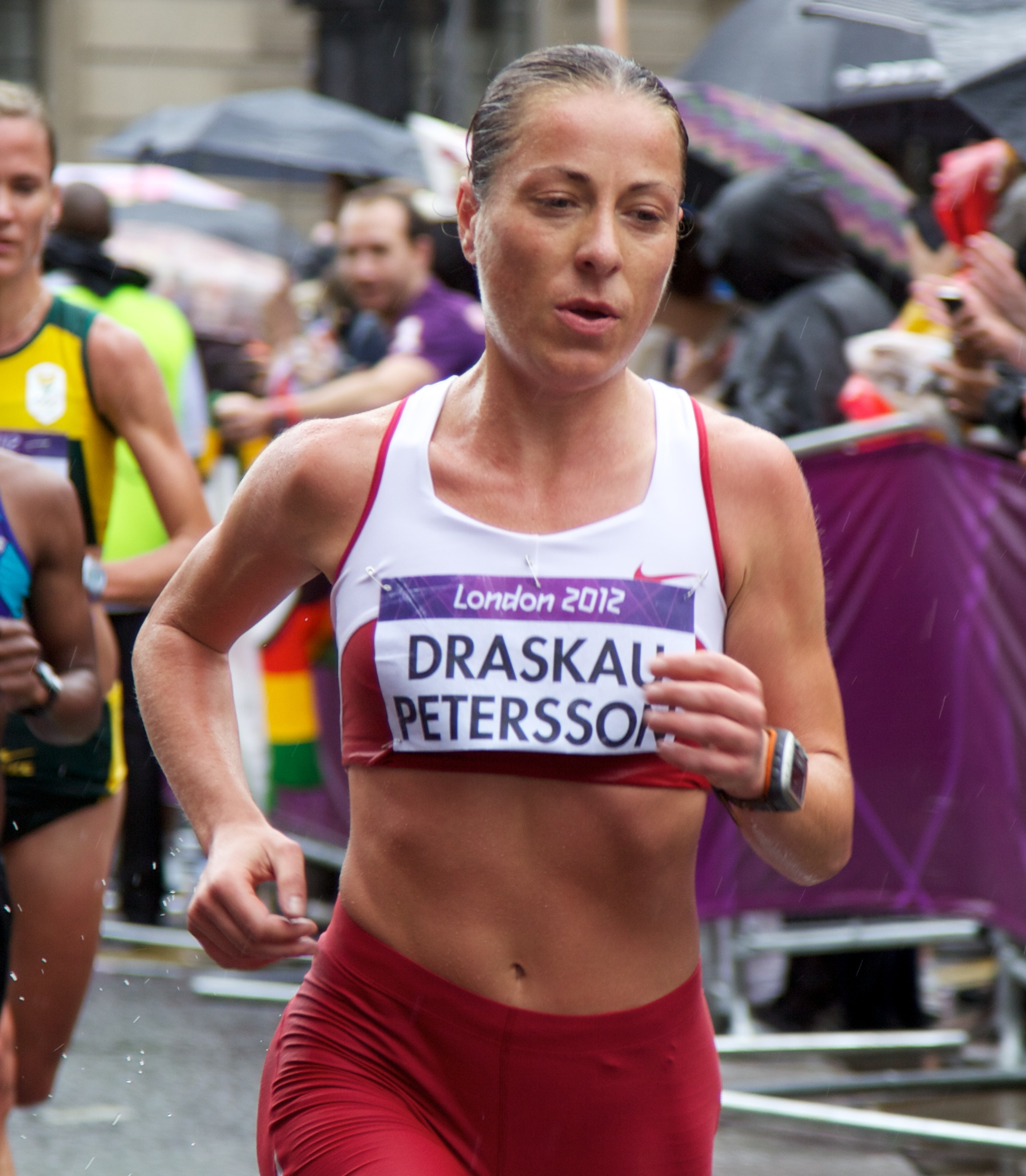 Women's Marathon